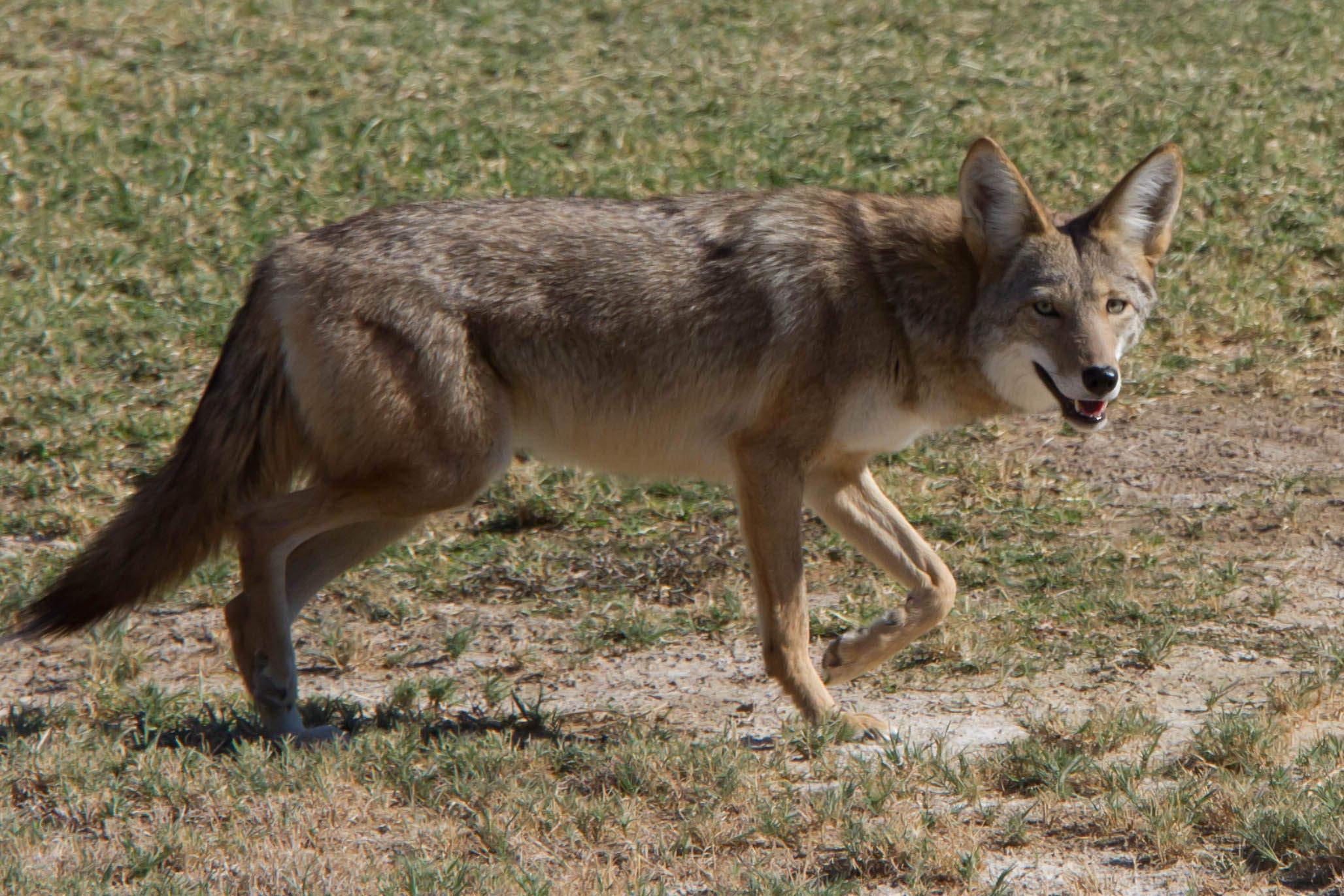 A Coyote in Furnace Creek Golf Course, Death Valley, California, USA.